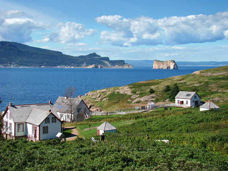 Percé viewed from Bonaventure Island, Gaspésie–Îles-de-la-Madeleine, Quebec, Canada.